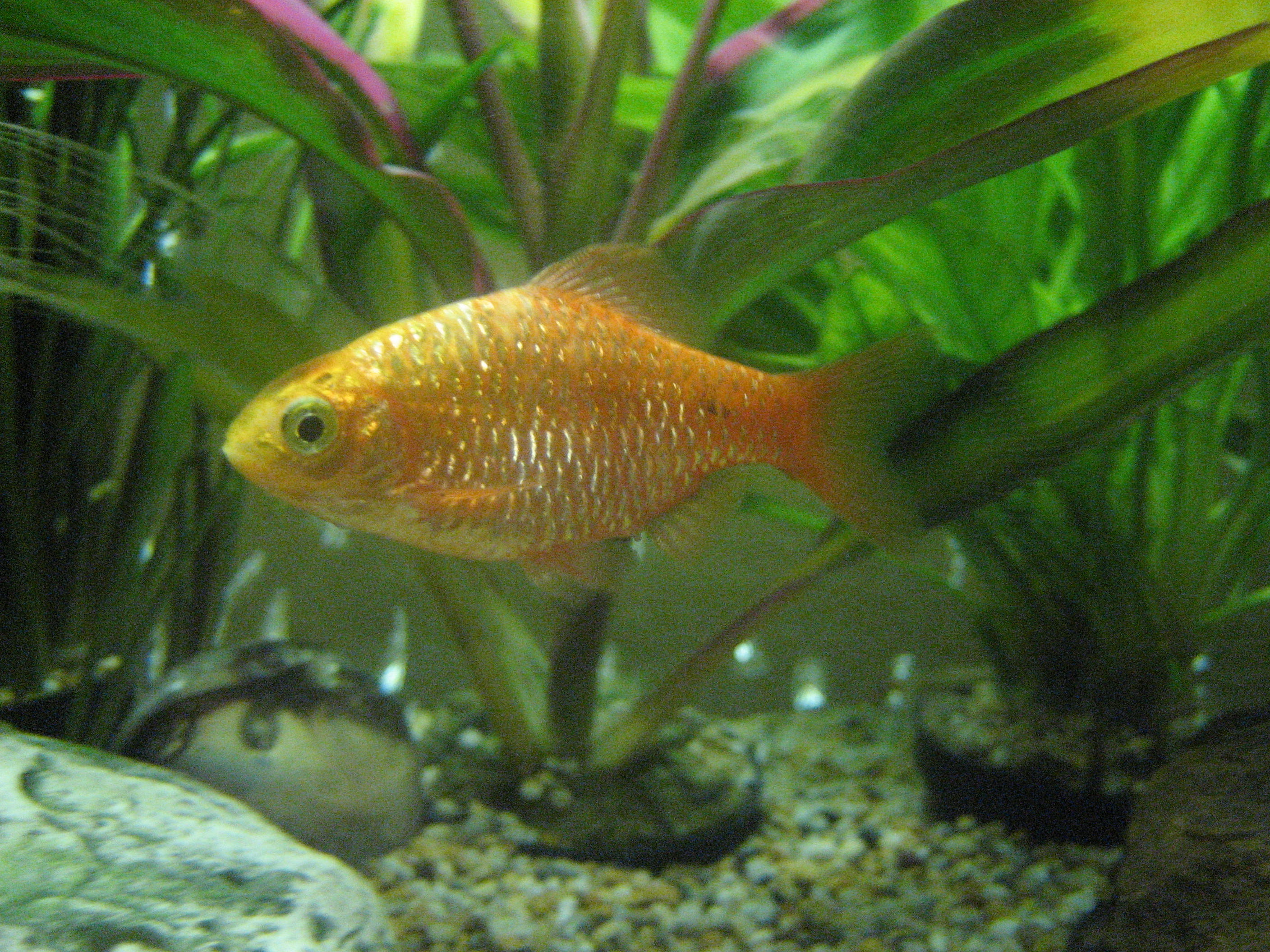 A image of Puntius conchonius (Rosy Barb, Prachtbarbe, Praktbarb)